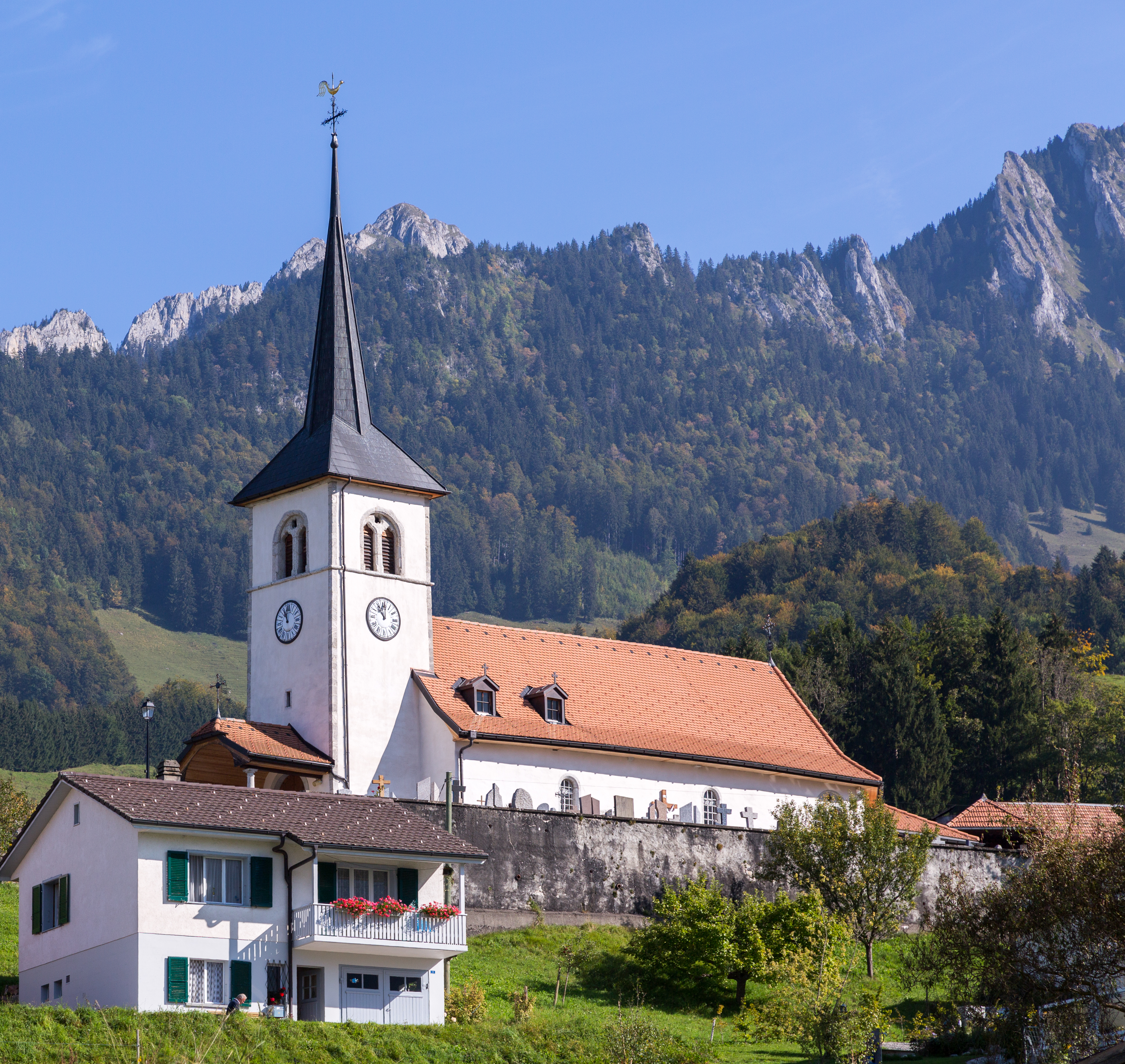 Église Sainte-Marie-Madeleine (1635)